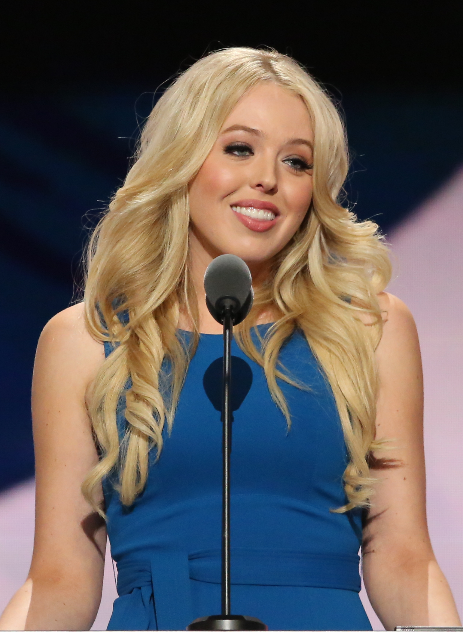 Tiffany Trump speaks at the Republican National Convention in Cleveland, Ohio, July 19, 2016. (A. Shaker/VOA)